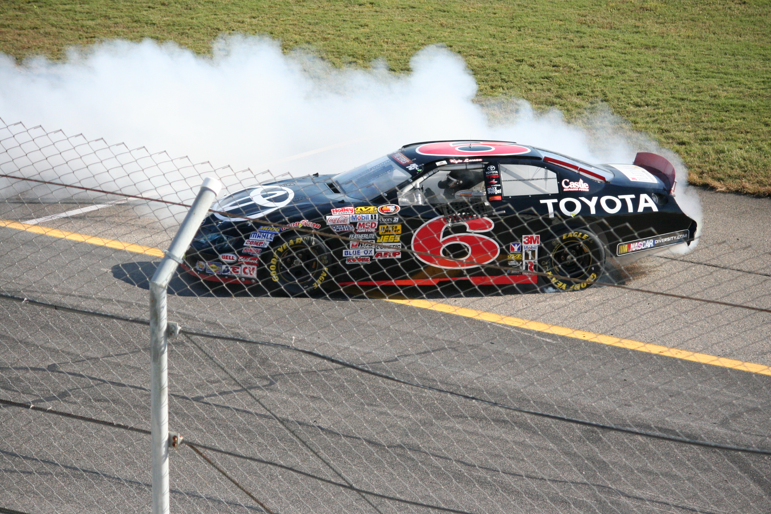 Kyle Larson celebrates in his No. 6 Rev Racing Toyota after winning the 2012 NASCAR K&N Pro Series East championship.